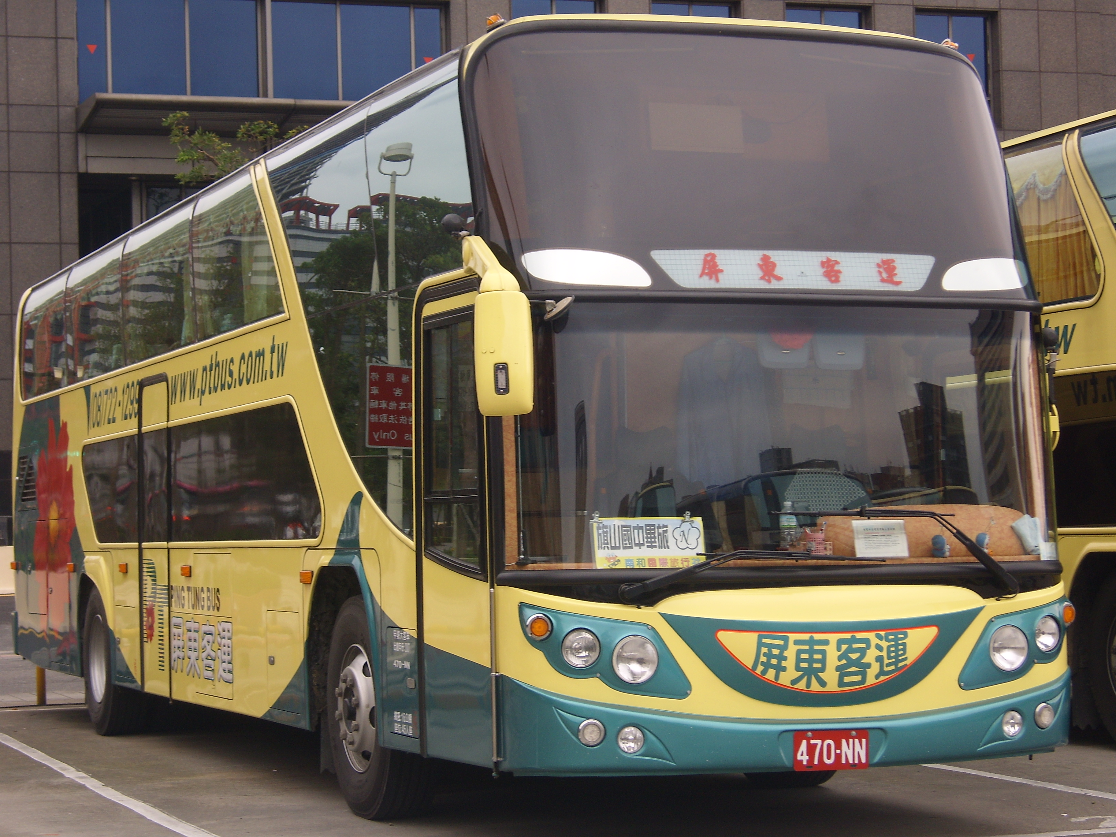 A brand new EU 4th issue chassied tour bus (HINO RN) is operated by Pingtung Bus.